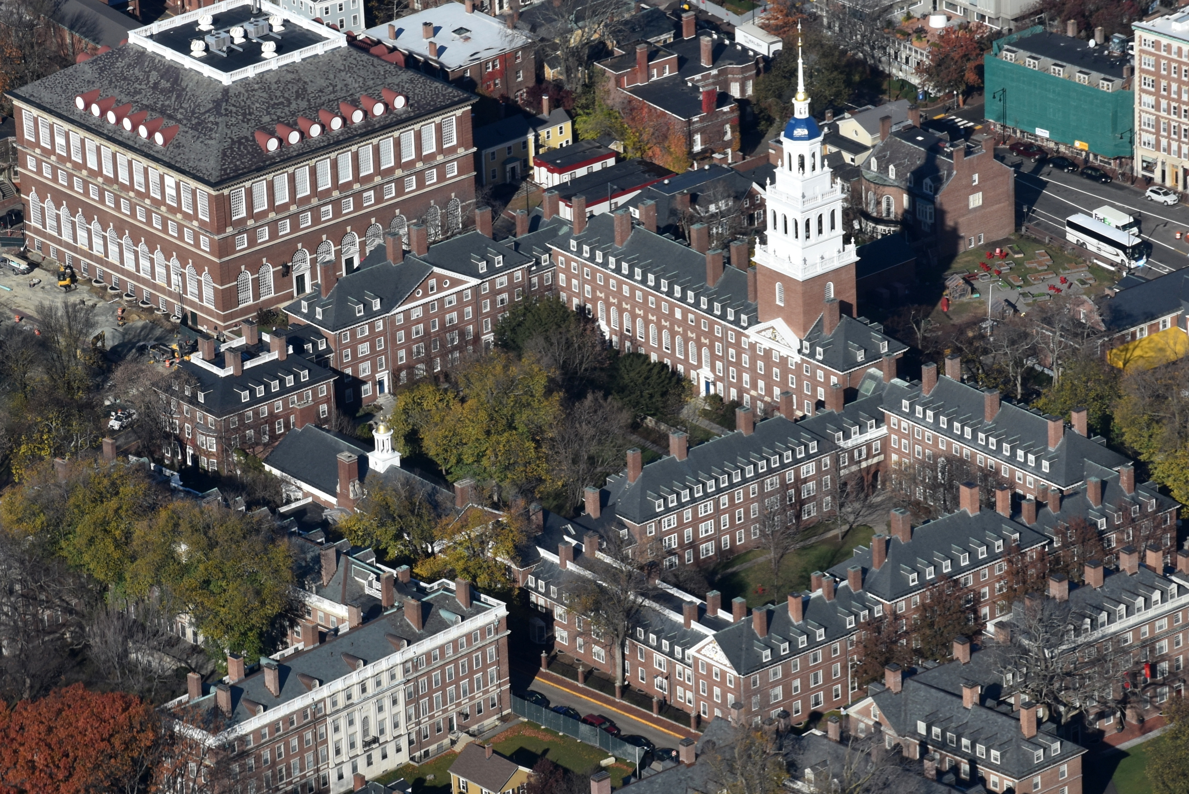 View of Lowell House at Harvard University, extracted from a larger aerial photograph.